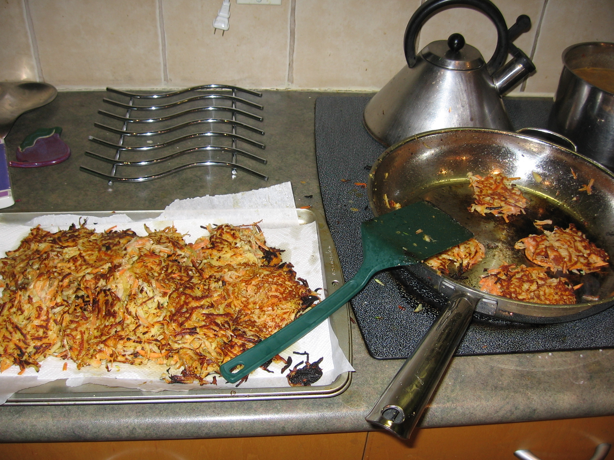 Potato latkes frying in my kitchen. Taken by me, Hannukah of 2005.